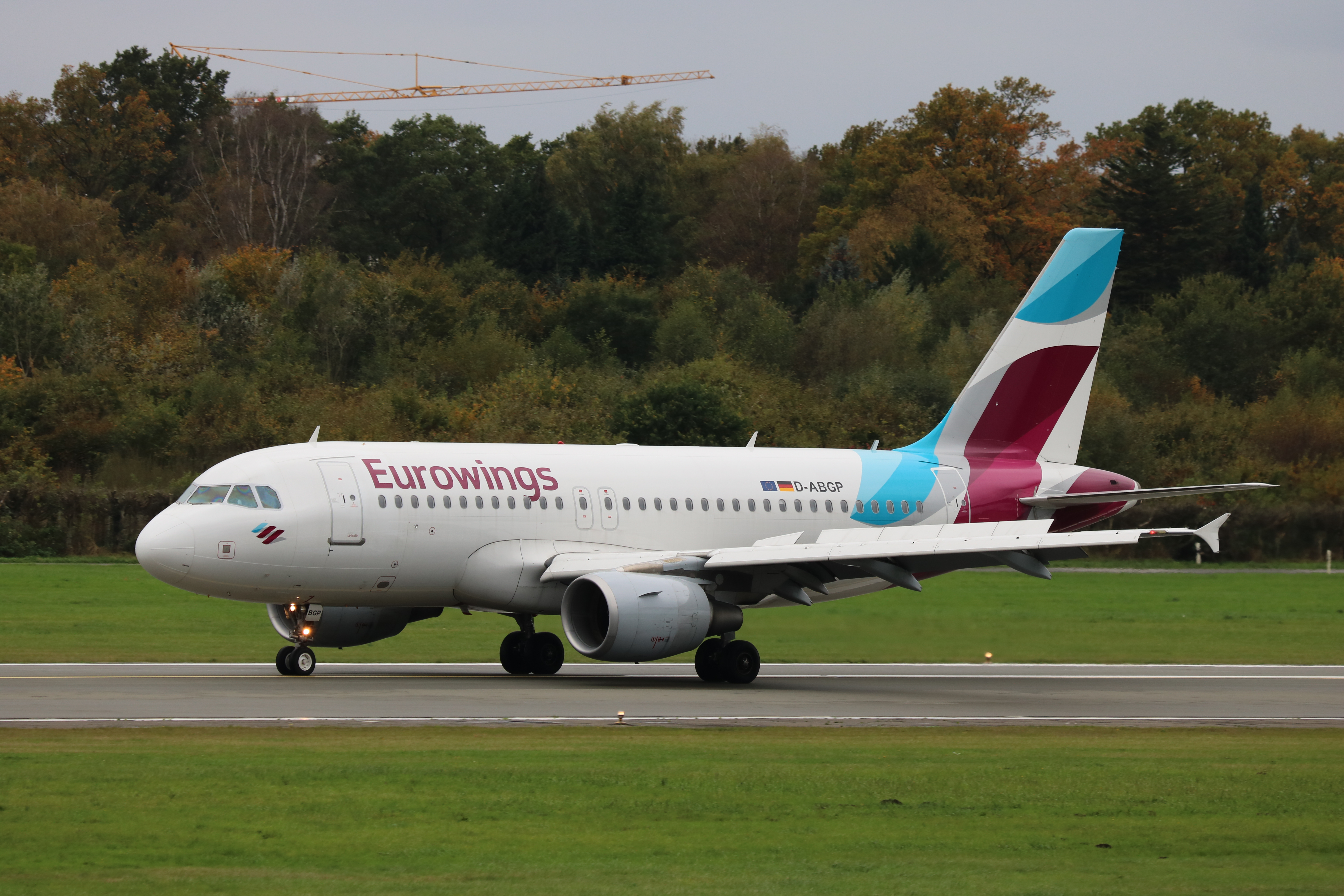 Flughafen Hamburg, Airbus A319-100 (D-ABGP) der Eurowings, operated by airberlin